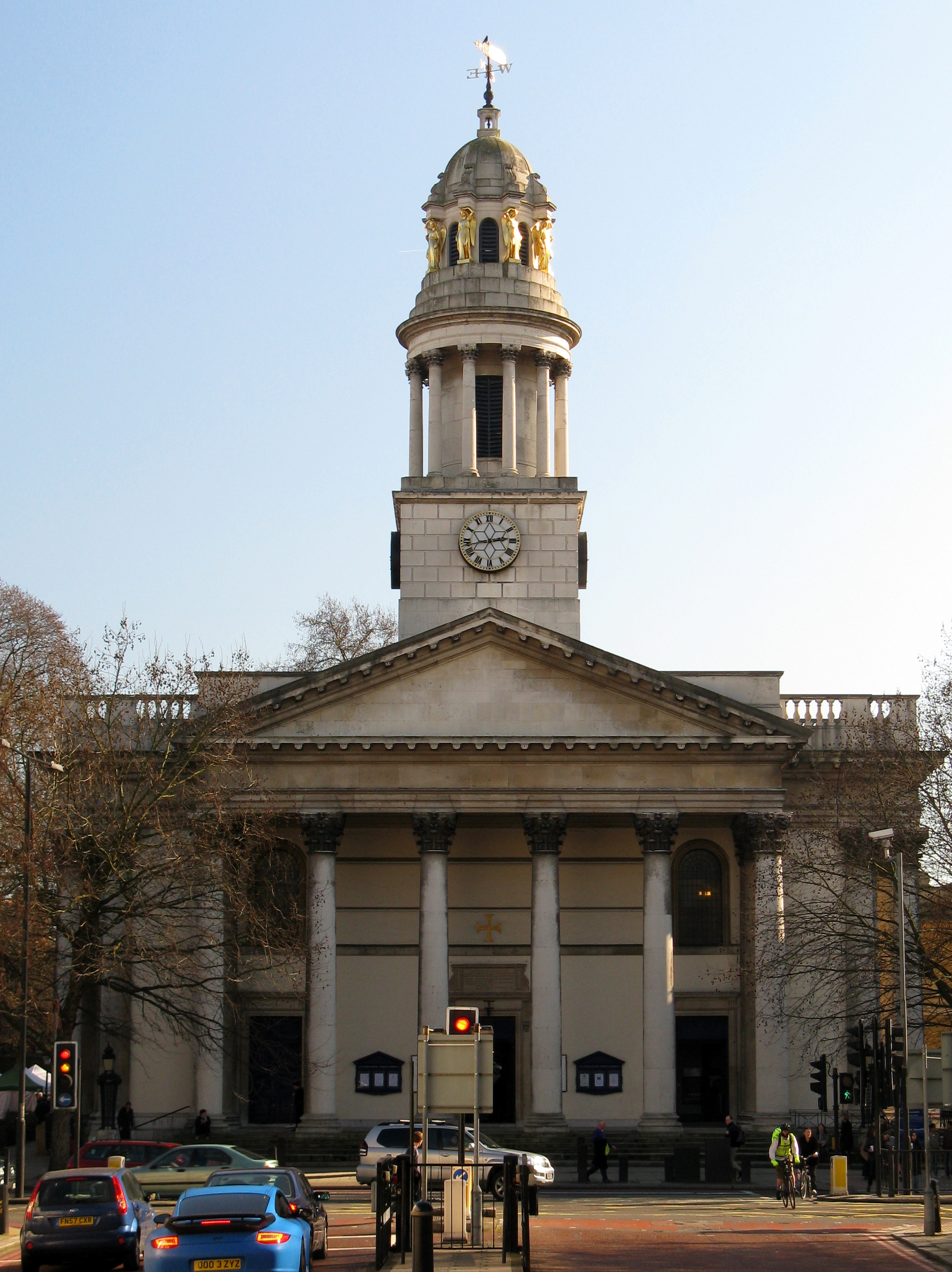 St Marylebone church